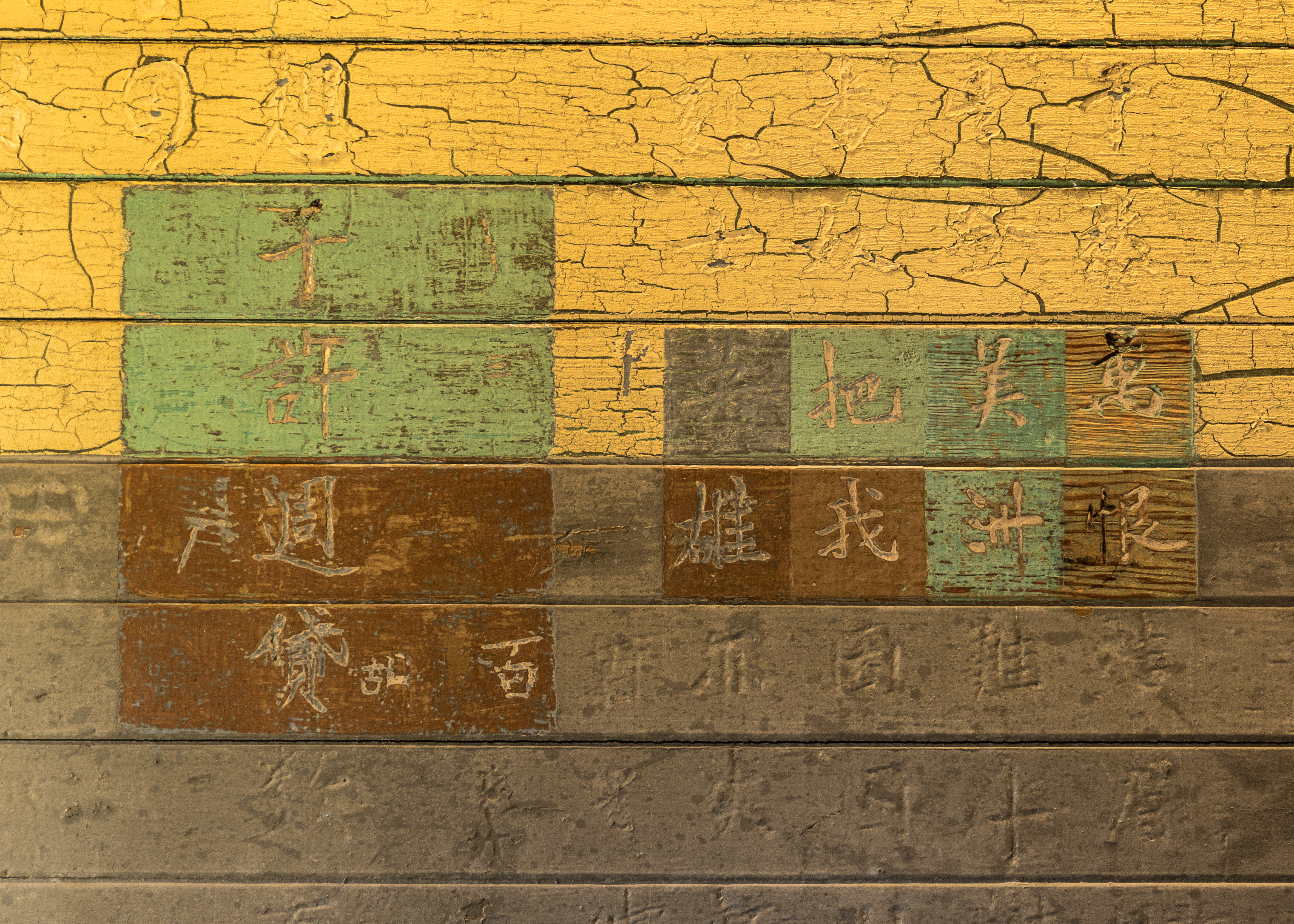 Angel Island Immigration Station, California